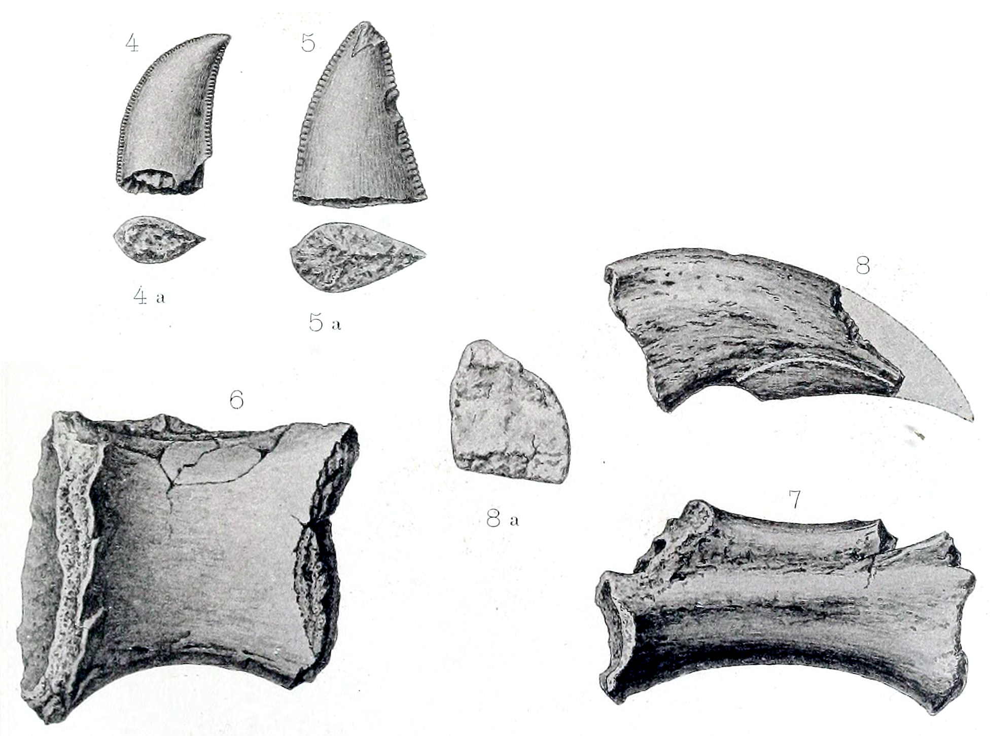 Original material assigned to Megalosaurus crenatissimus (now Majungasaurus).